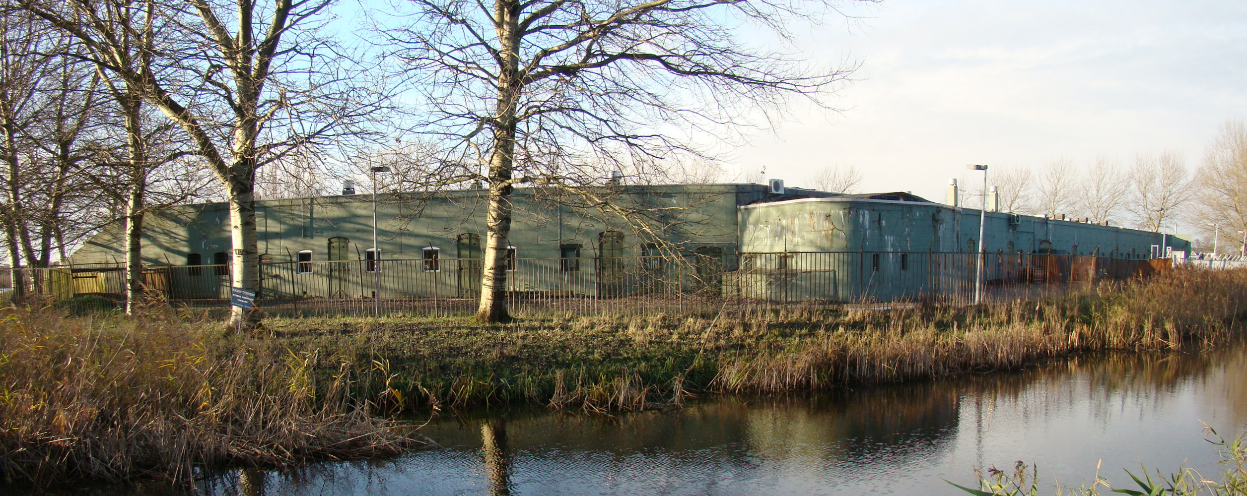 Fort bij de Liebrug, Haarlemmerliede